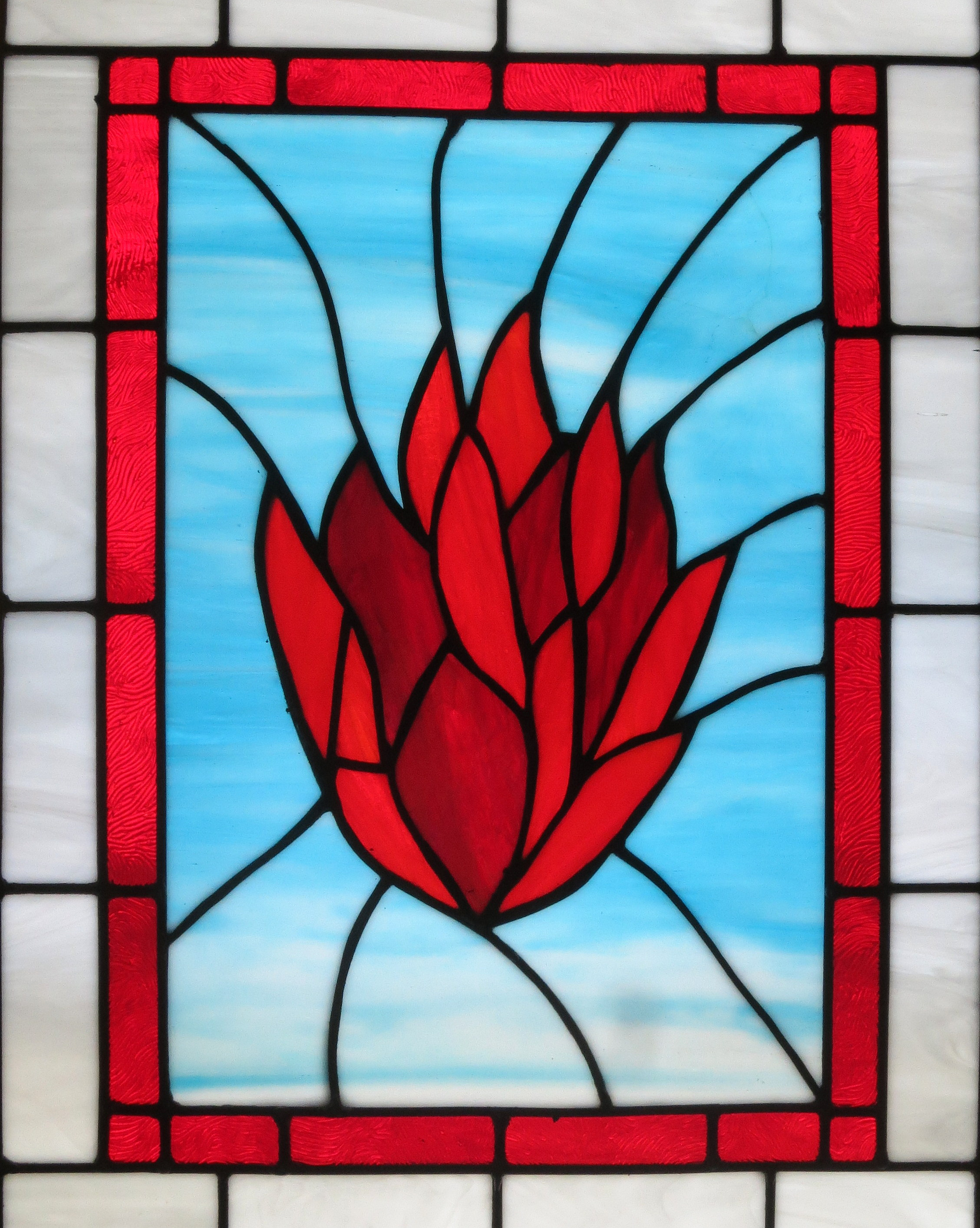 Church of the Ascension (Johnstown, Ohio) - stained glass, The Holy Spirit as fire